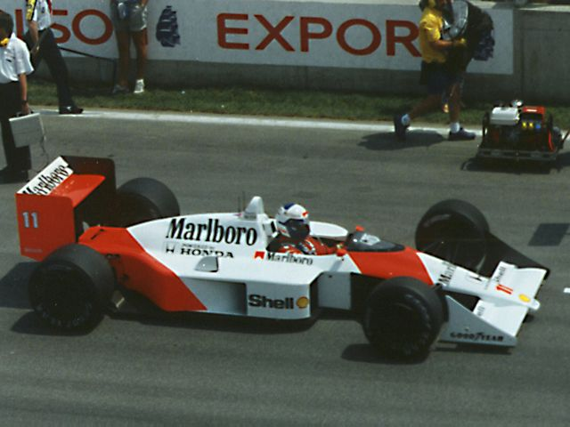 1988 Canadian Grand Prix, Montreal. Camera: Nikon FG + Sigma 70-210mm f/4.5. Scanned from print.